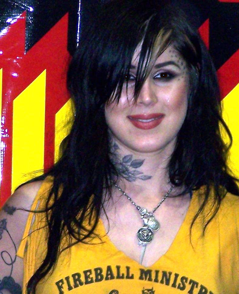 Kat Von D, of LA Ink, at the 2007 Calgary Tattoo & Arts Festival held in the Calgary Roundup Centre, 1410 Olympic Way SE Calgary, Alberta, Canada.